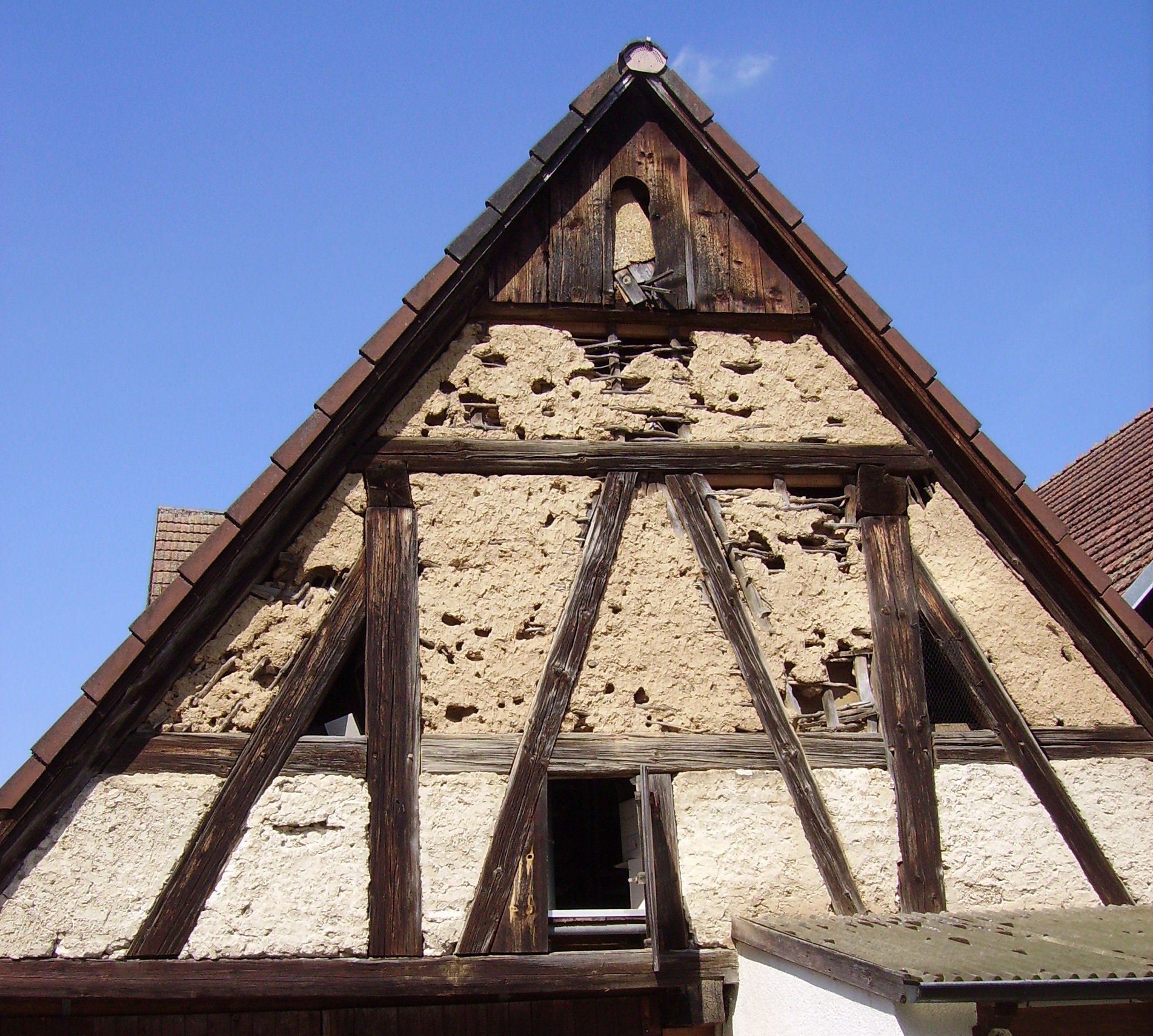 Description: Heiligenstadt in (Franconia) Source: own photography Date: August 2005 Author: --Immanuel Giel 09:10, 13 September 2005 (UTC) Other versions: none